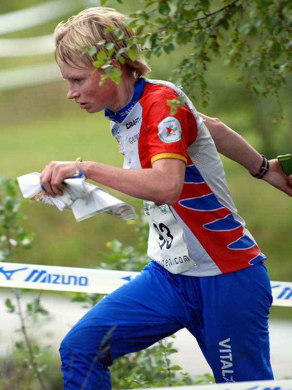 Marianne Andersen at the World Cup event in Norway 2007.